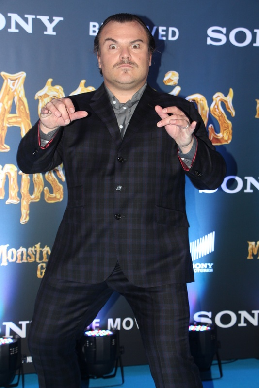 Jack Black-006